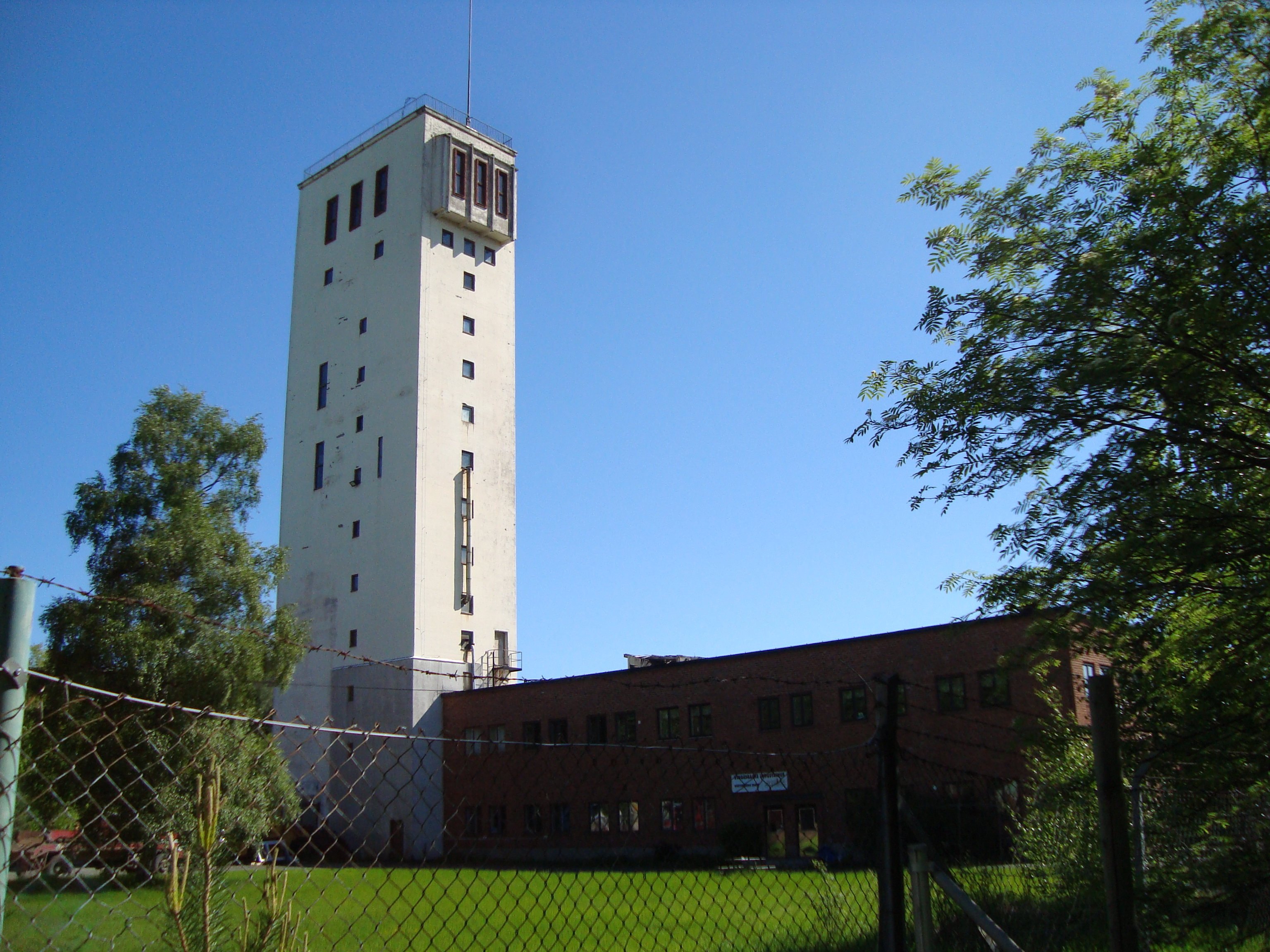 Old iron mine of Vingesbacke. Hofors Municipality, Sweden